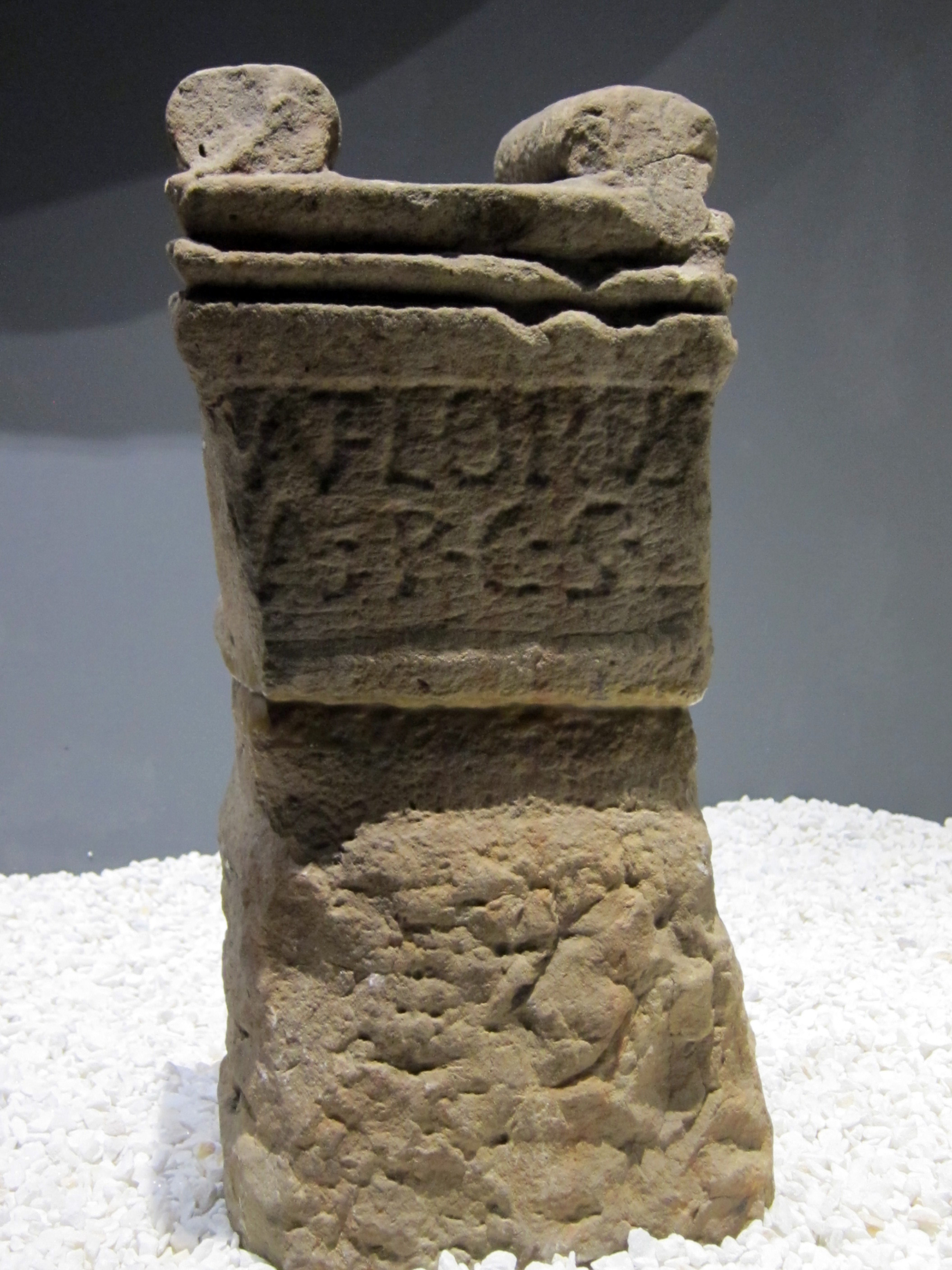 Museum of Prehistory and Archaeology of Cantabria. Altar dedicated by Florus (Rasines, Cantabria).